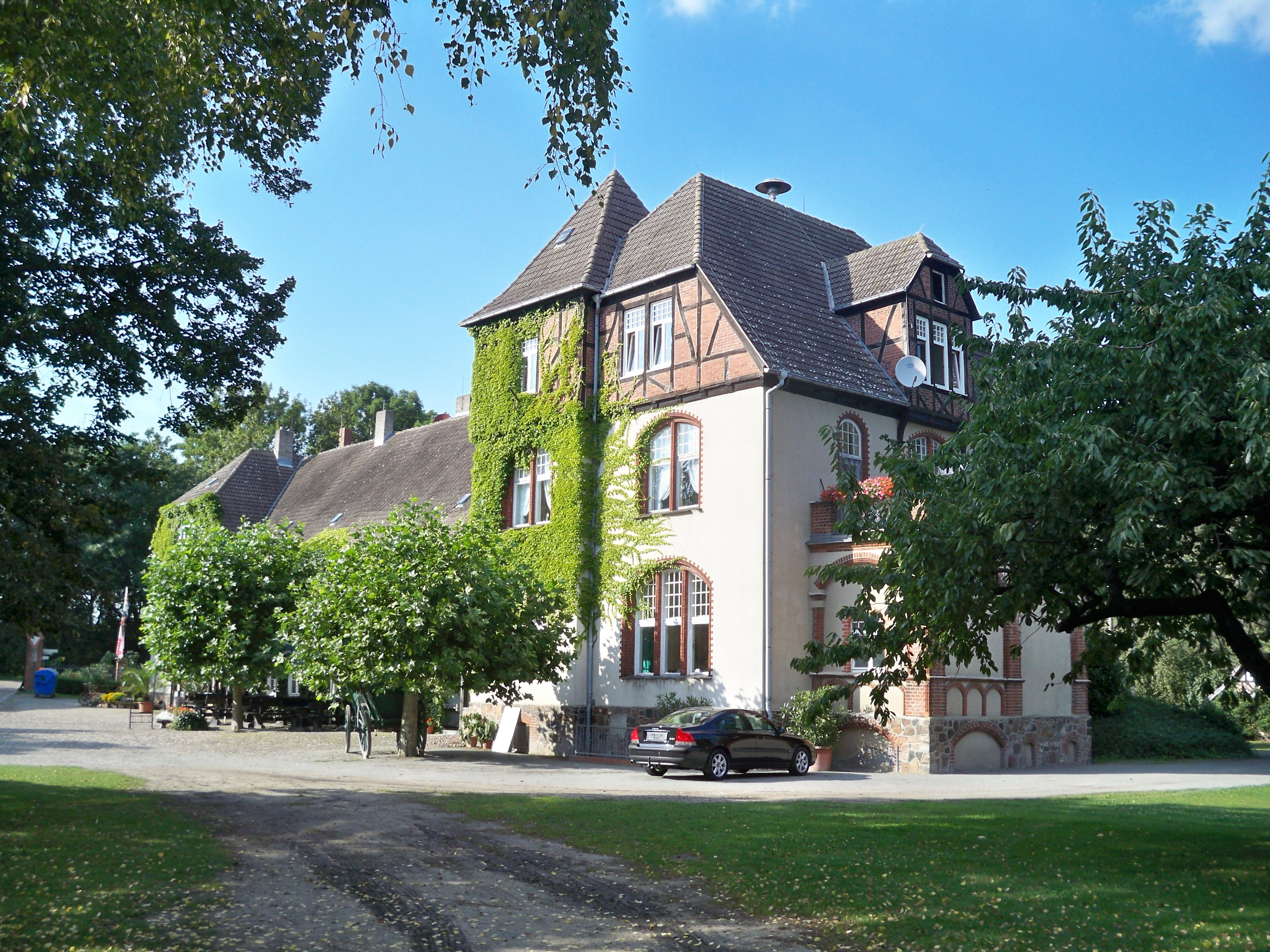 Büttnershof, Iden, Saxony-Anhalt, main building